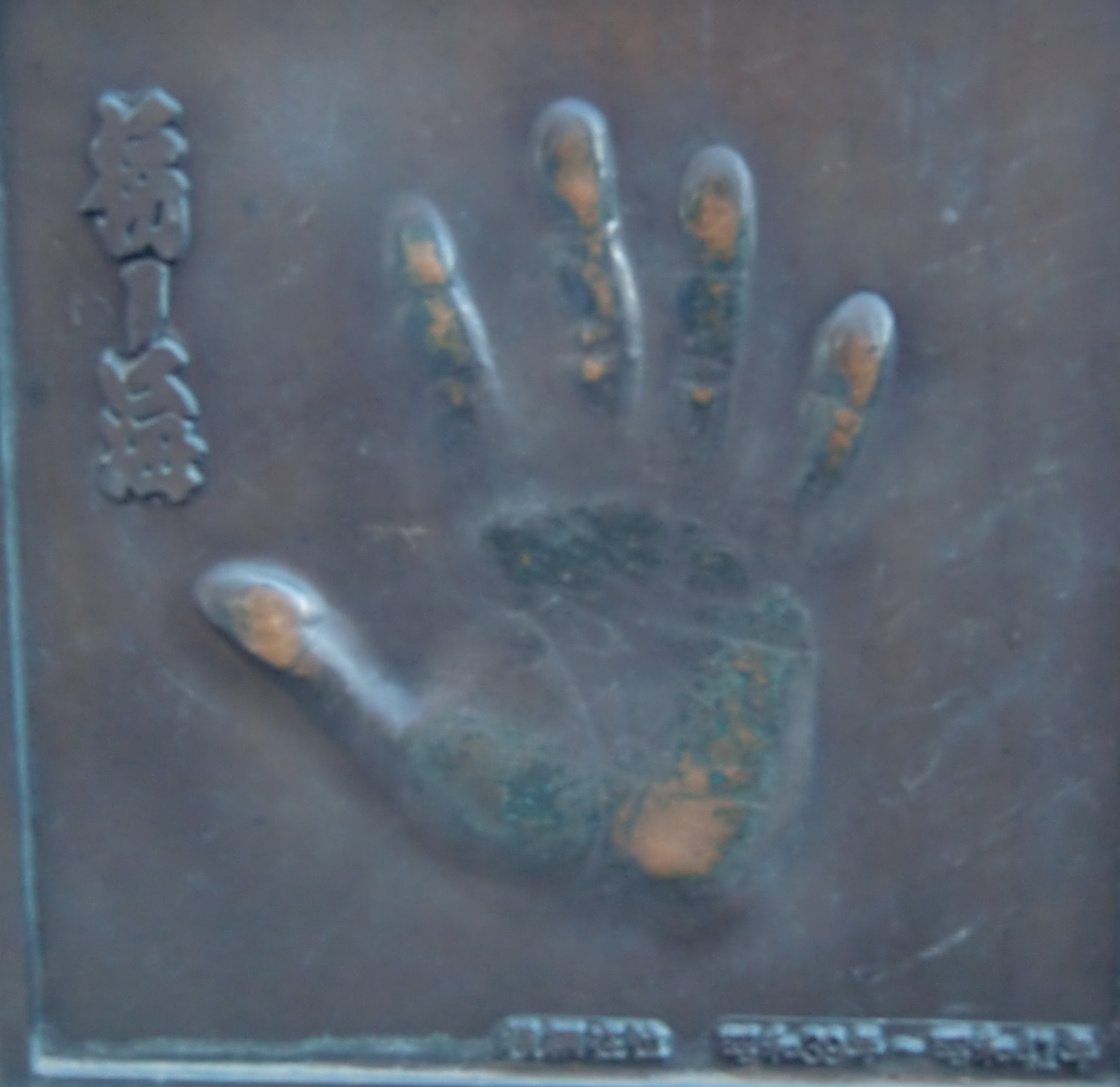 image taken from monument in Ryogoku, Tokyo